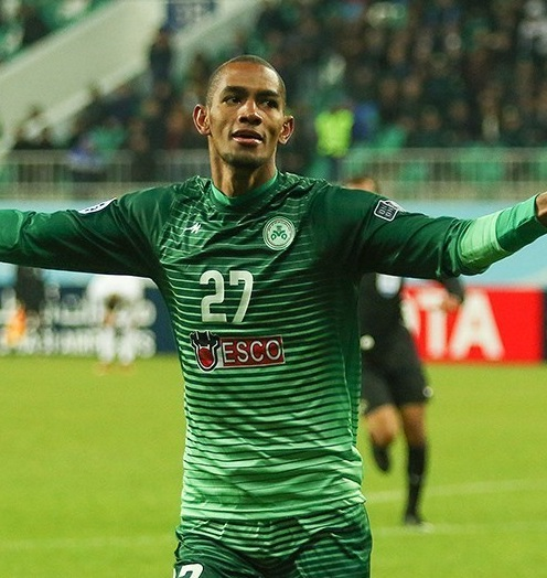 Jerry Bengtson